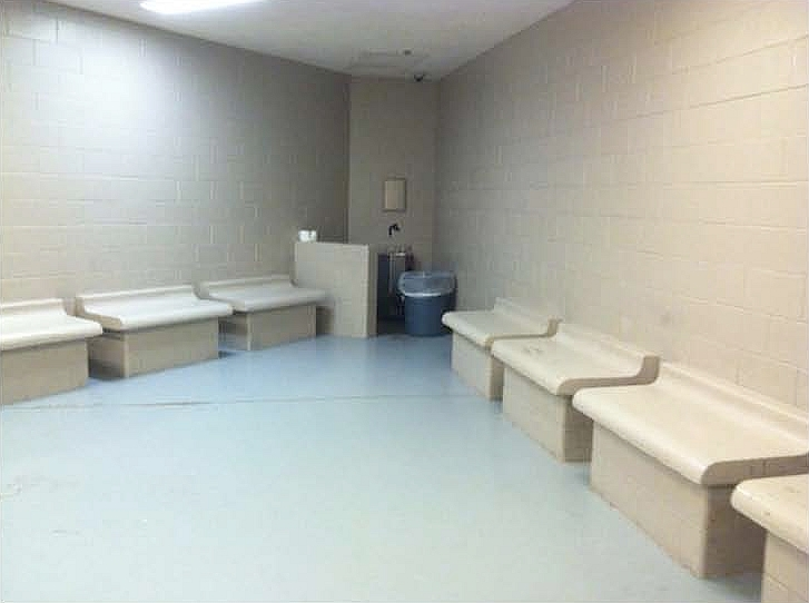 U.S. Border Patrol Holding Rooms, Fort Brown Station, Brownsville, Texas (2014).